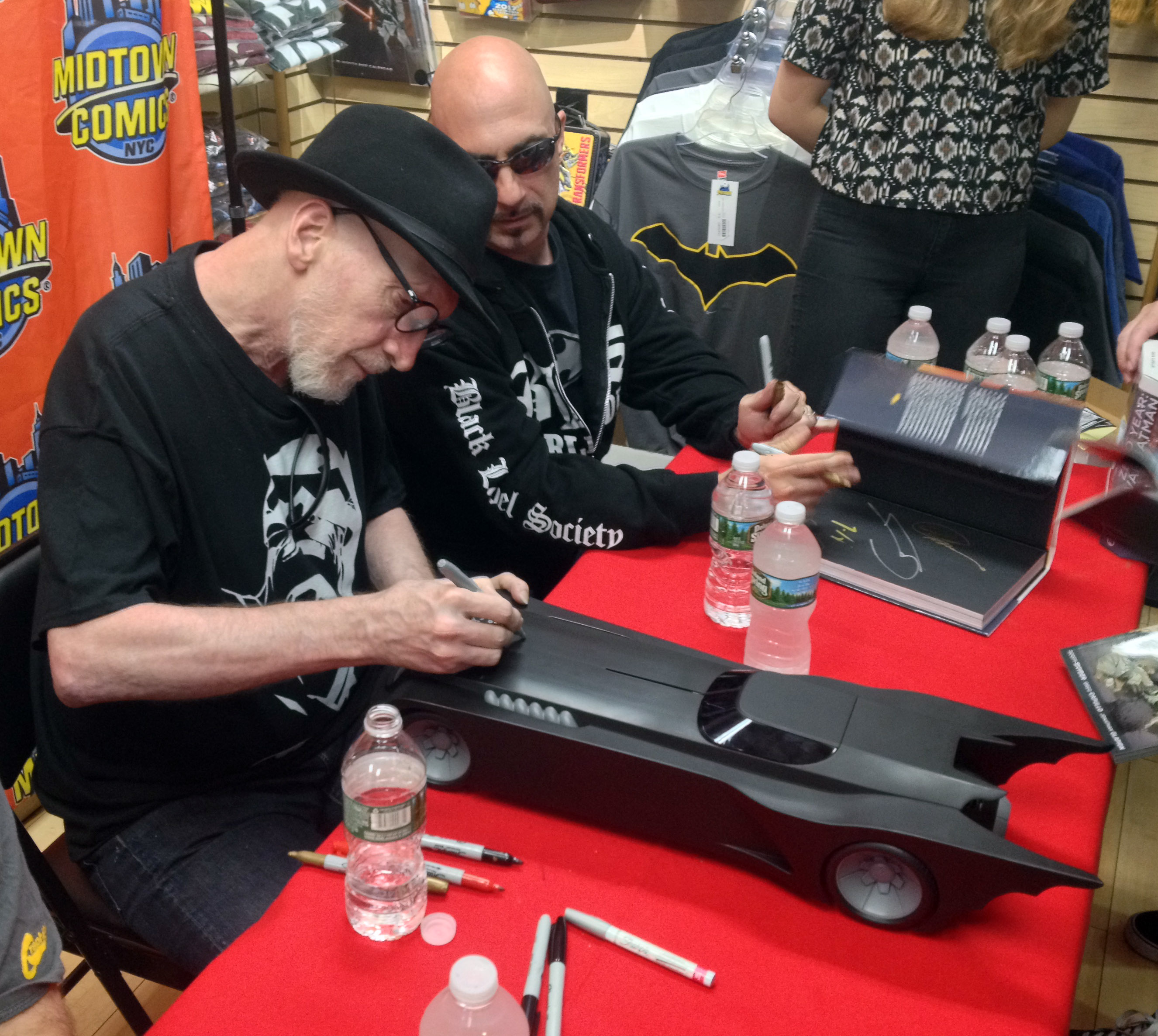 Comics creators Frank Miller and Greg Capullo sigining a toy Batmobile during an appearance at Midtown Comics Downtown September 17, 2016, the third annual Batman Day, when DC Comics celebrates the creation of the character Batman. This photo was created by Luigi Novi. It is not in the public domain, and use of this file outside of the licensing terms is a copyright violation.